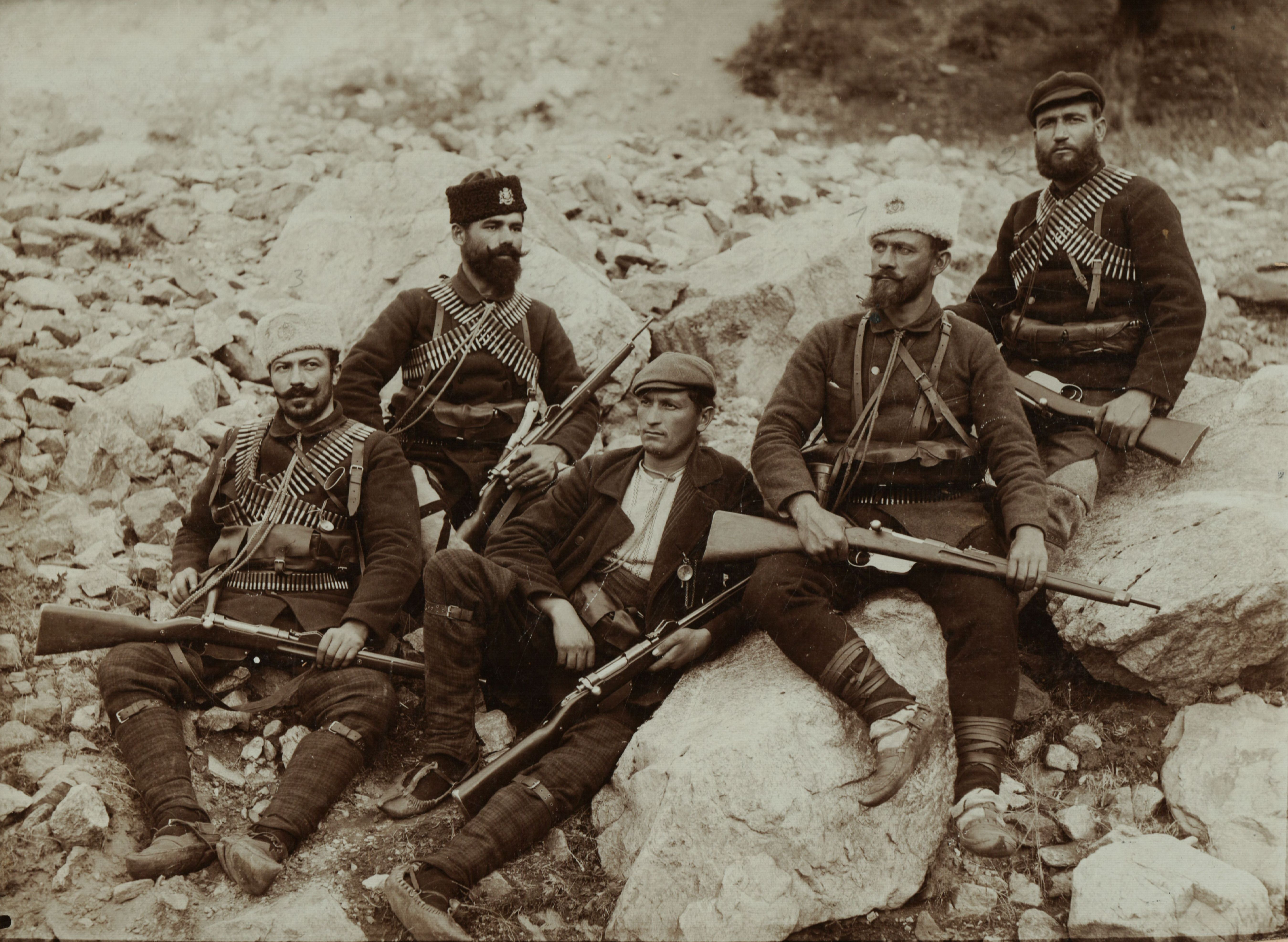 Mihail Ganchev, Sotir Atanasov, Bobi Stoychev, Anton Shipkov, Atanas Babata.